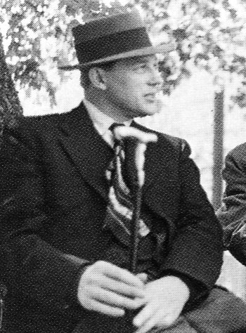 Harry Martinson